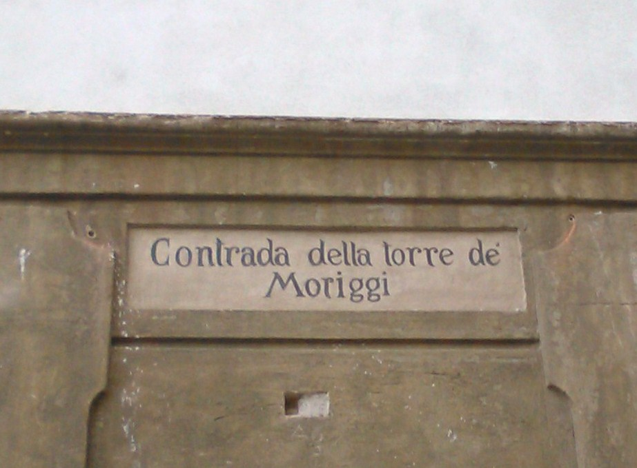 Old street sign in Milan, via Morigi, Milan, Italy